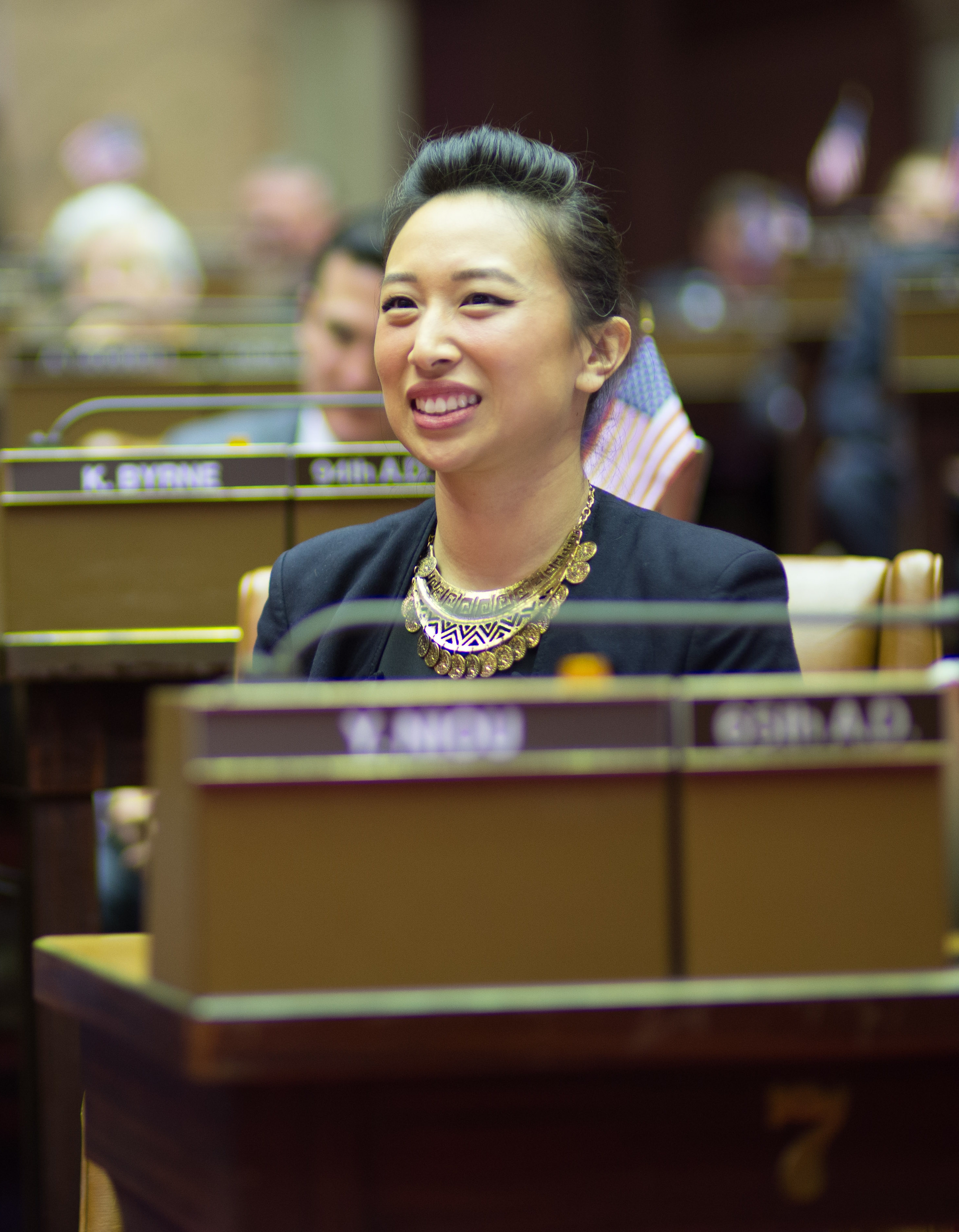 Assemblymember Yuh-Line Niou of the 65th District during the 2017 session.